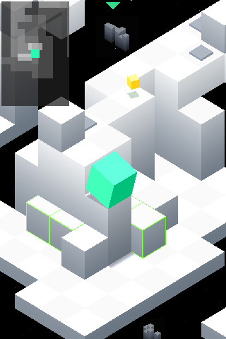 Edge screenshot on iPhone